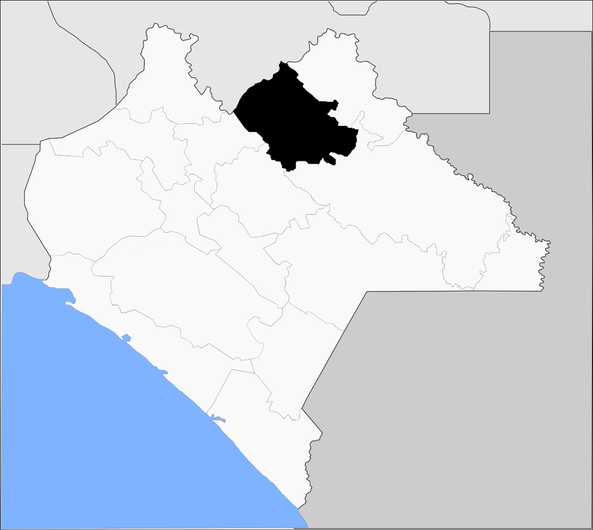 Map of the Region XIV - Tulijá Tzeltal Chol in the State of Chiapas.